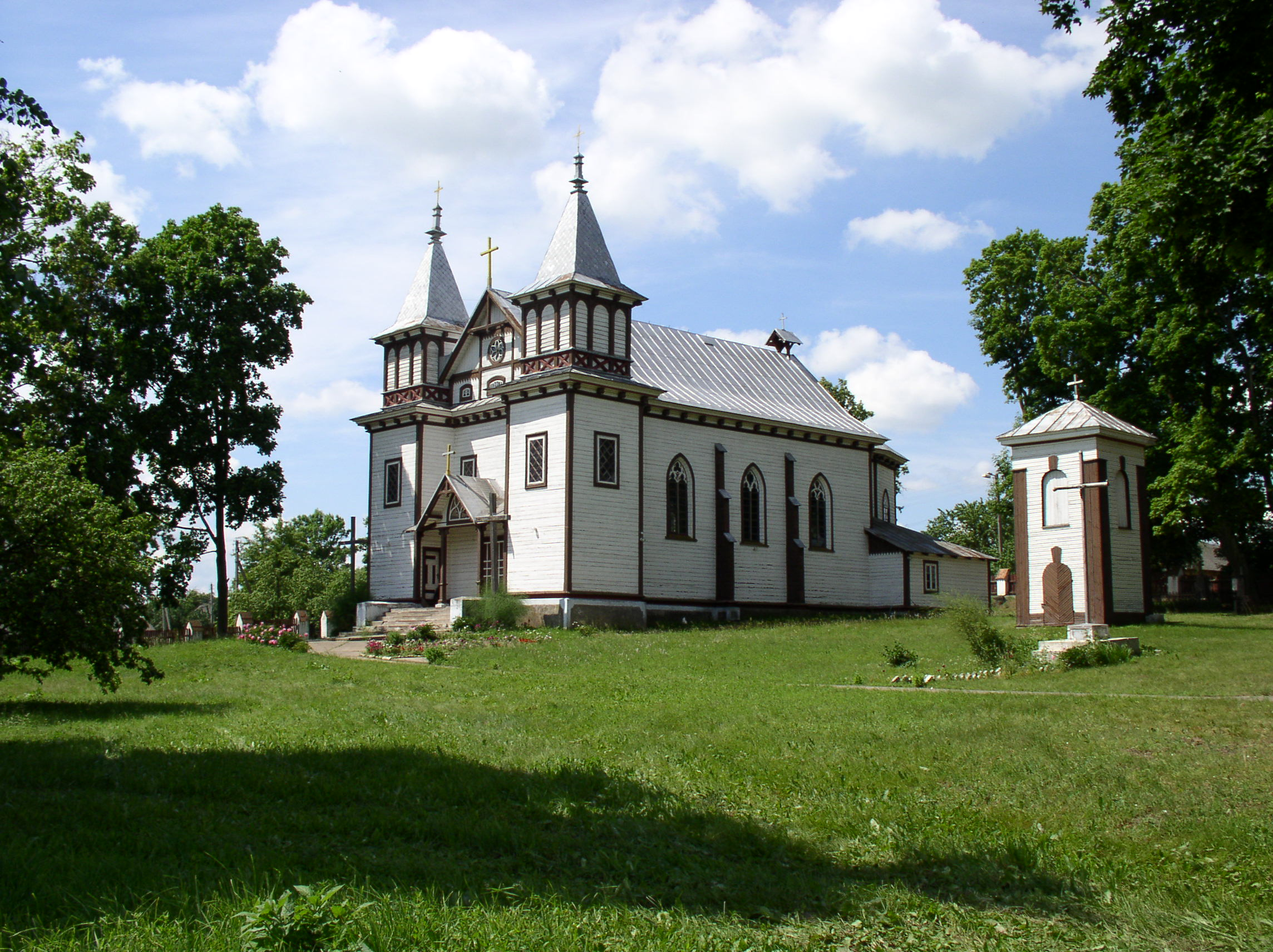 Church of Saint George. Palanechka, Belarus